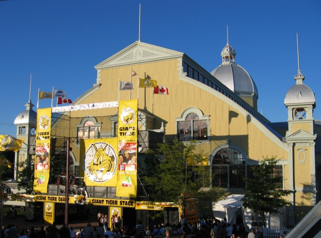 Aberdeen Pavilion During Ottaw SuperEx 2004